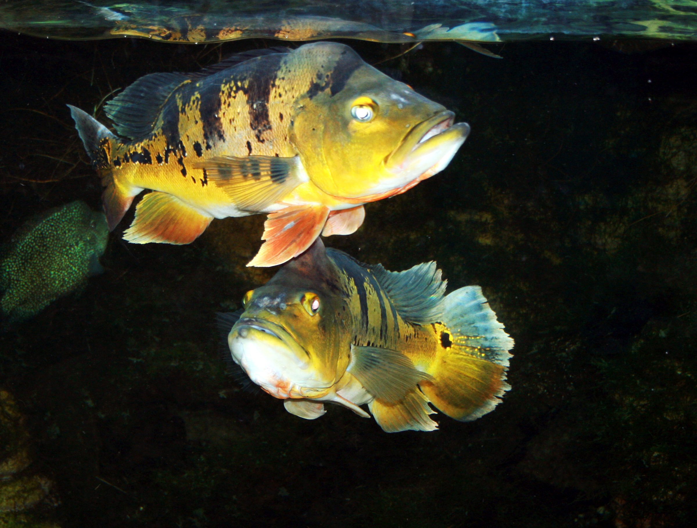 Fish Peacock Cichlid, (Cichla ocellaris) in ZOO Dvůr Králové, Czech Republic